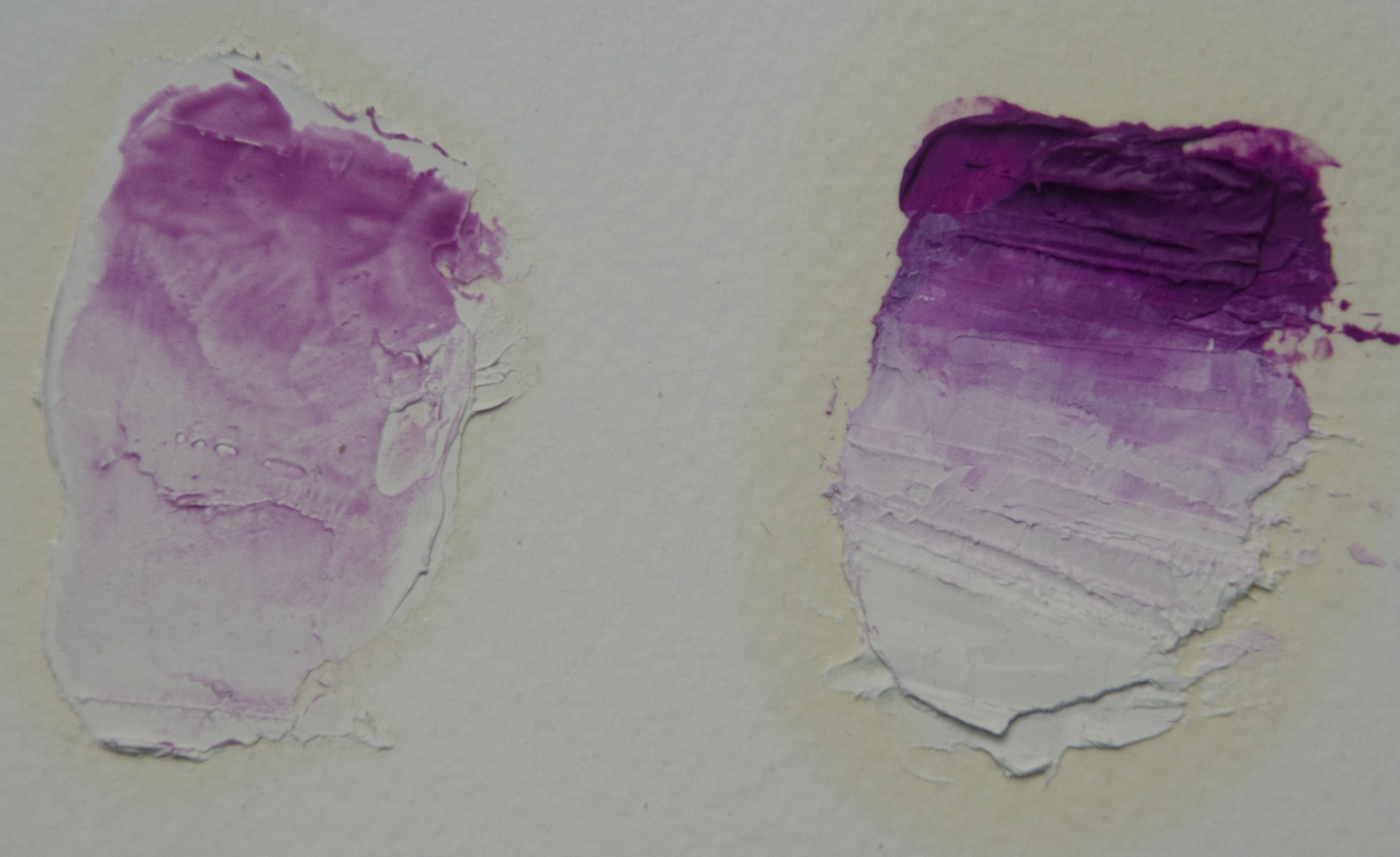 Cobalt phosphate in oil; a standoil glaze on zinc white on the left, the mass tone on the right